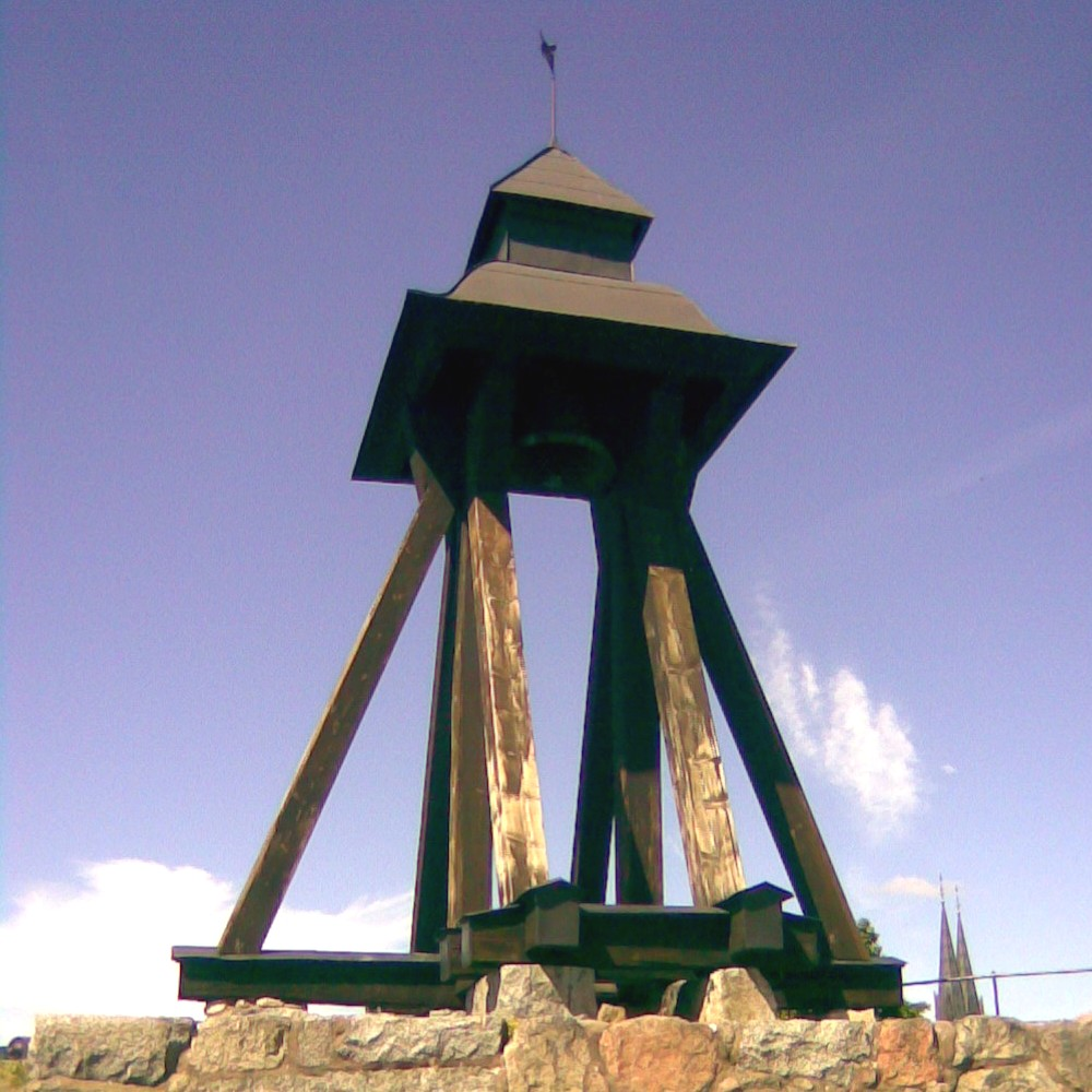 The Gunilla Bell at Uppsala Castle in Uppsala, Sweden